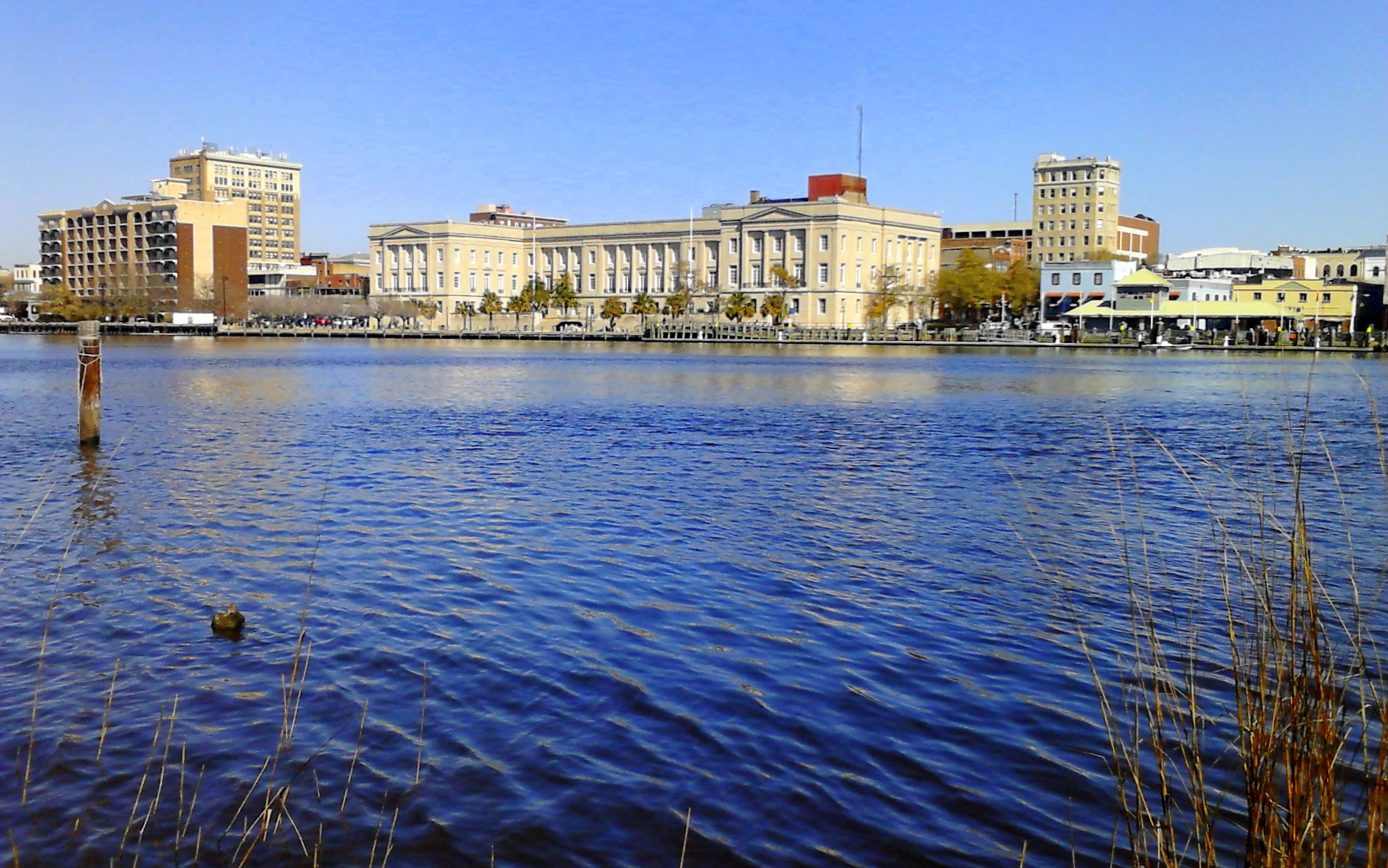 Downtown Wilmington, North Carolina as seen from across the Cape Fear River